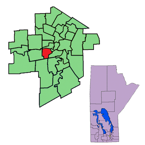 The 1999-2011 boundaries for the River Heights electoral district highlighted in red